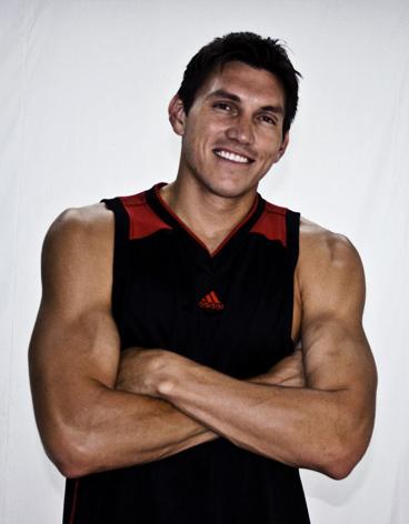 NBA player Eduardo Najera